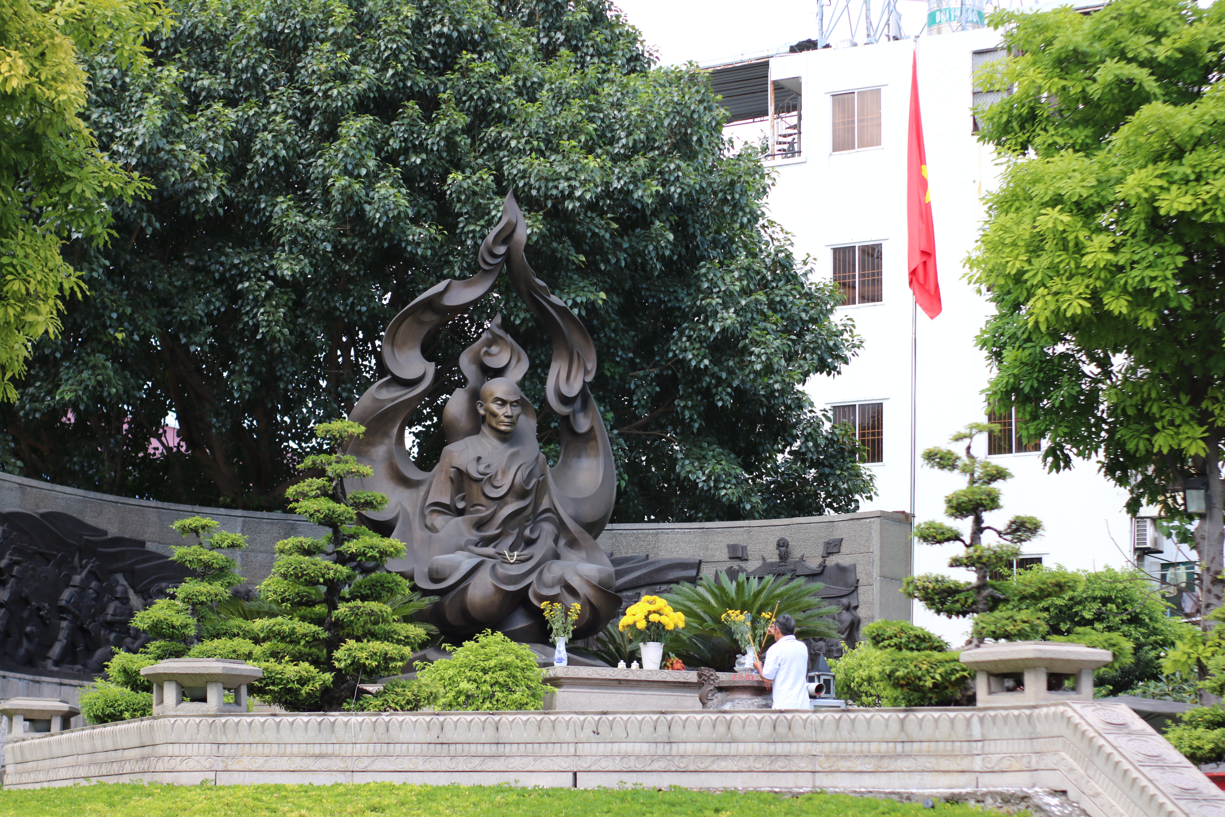 Thich Quang Duc